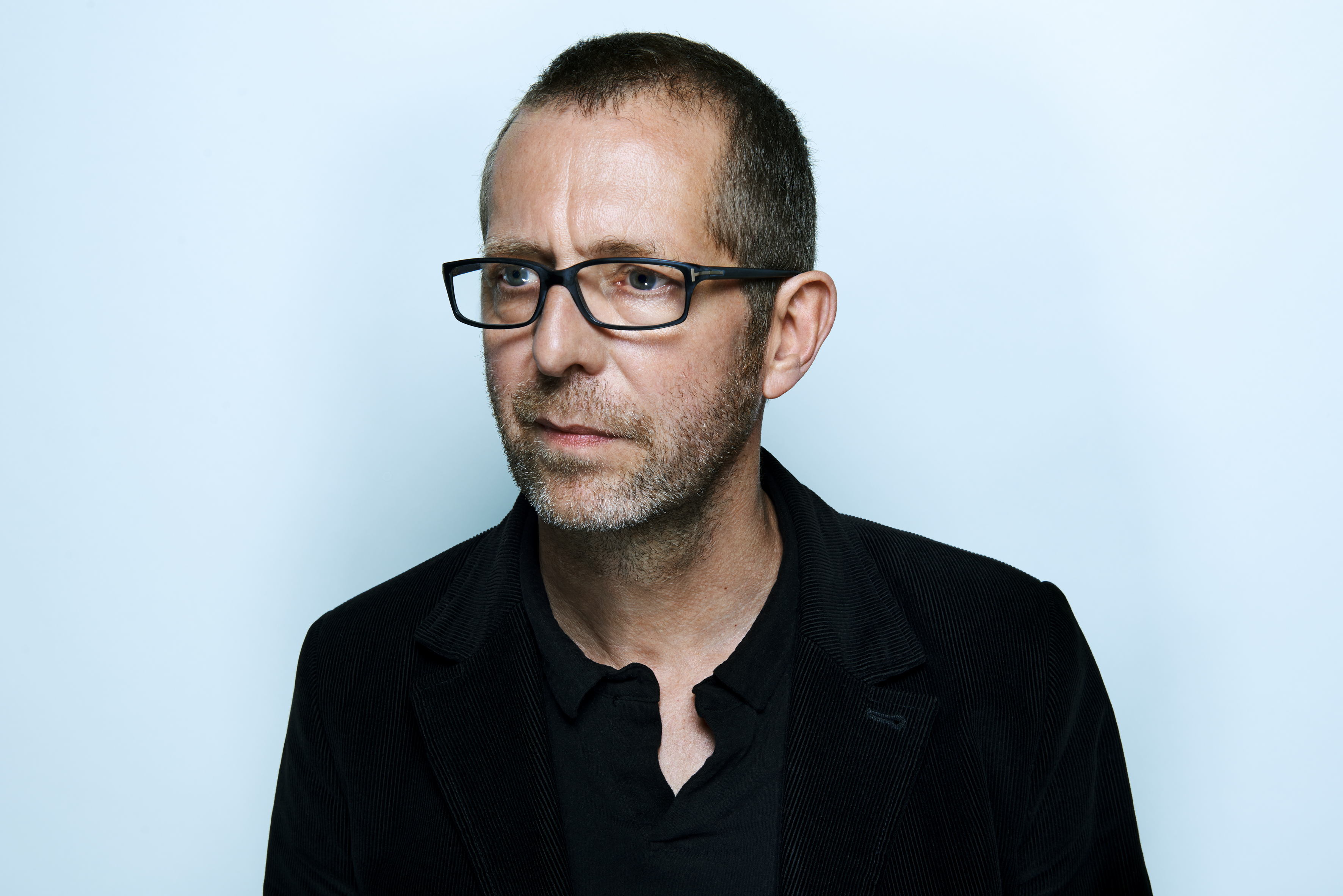 Rémi Babinet, photographed in 2013 for BETC by Benni Valsson